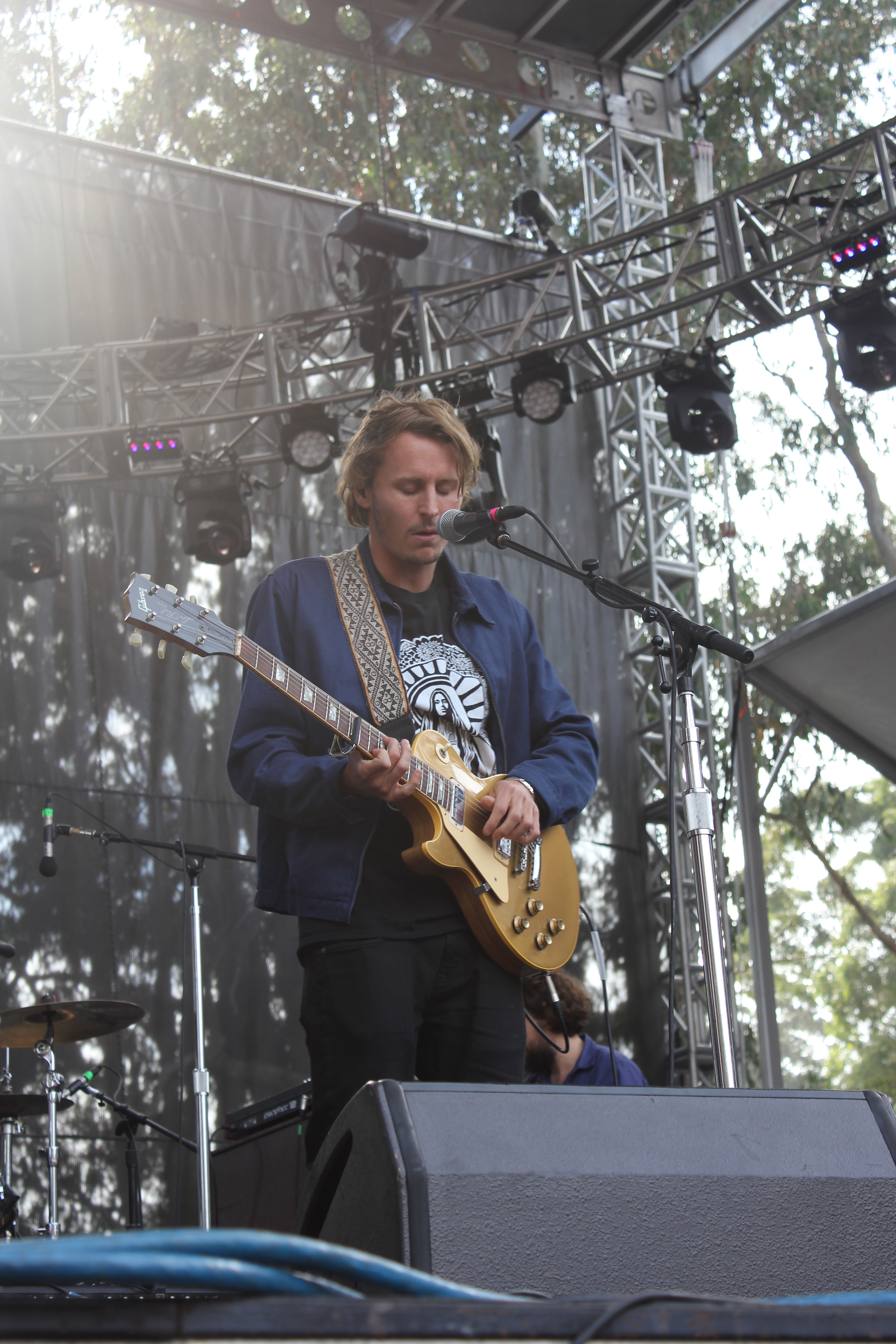 English singer-songwriter Ben Howard.